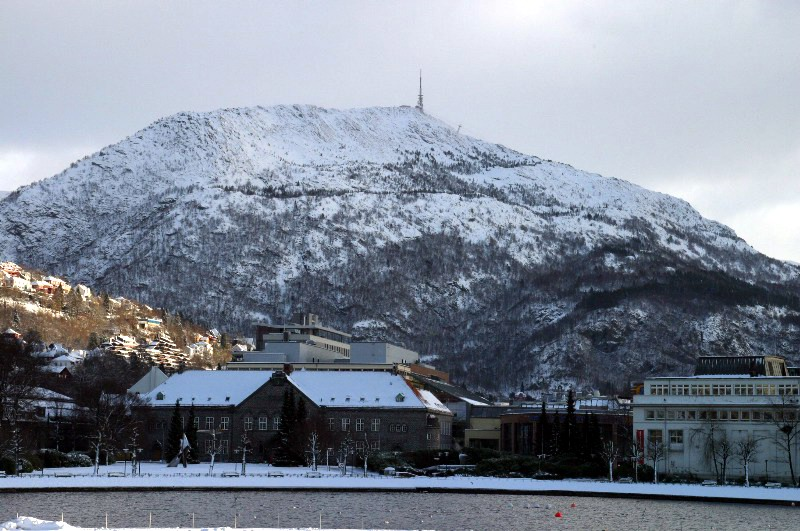 Ulriken, as seen from the centre of Bergen